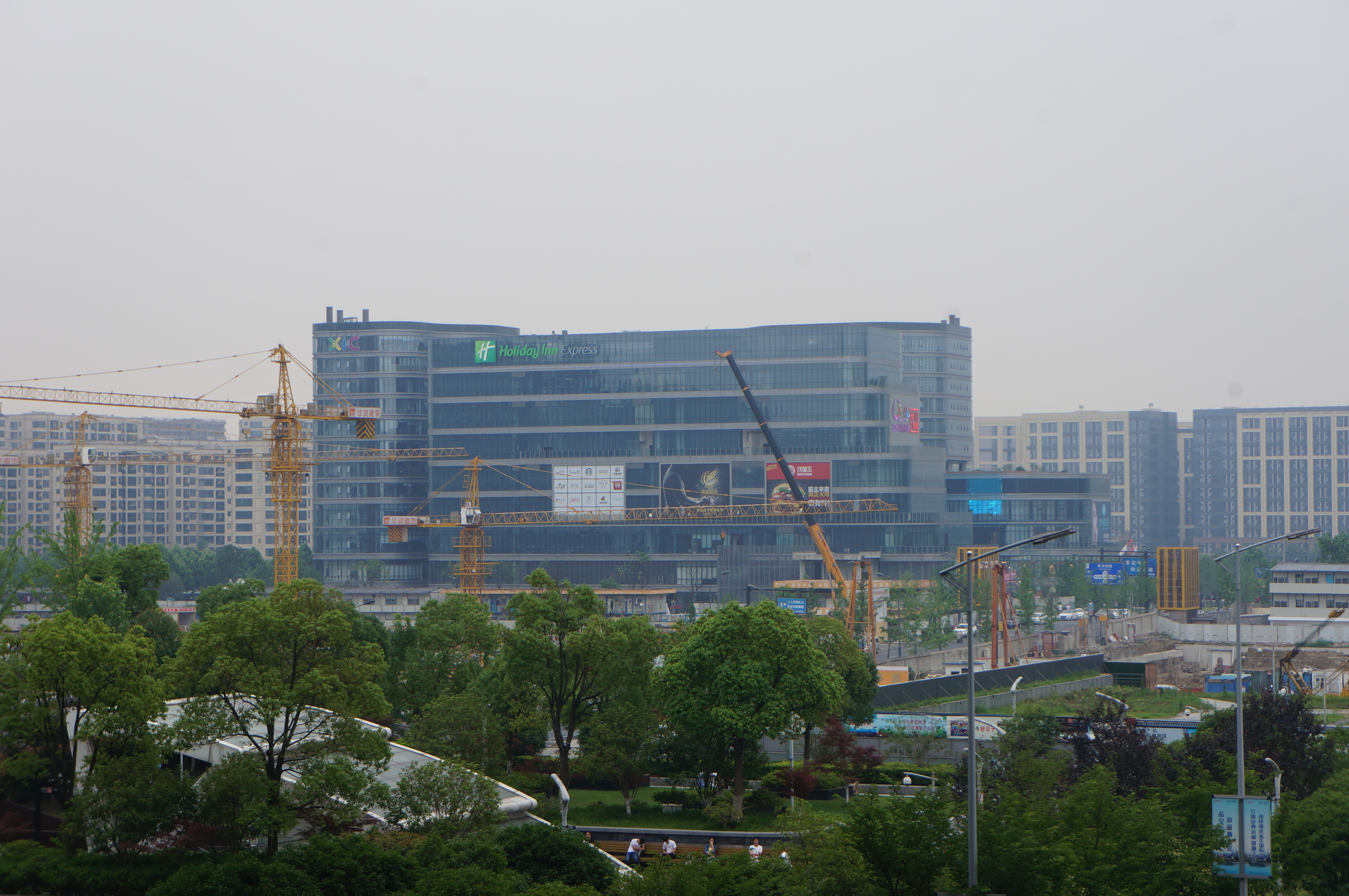 201806 East Station XIC with HolidayInn.